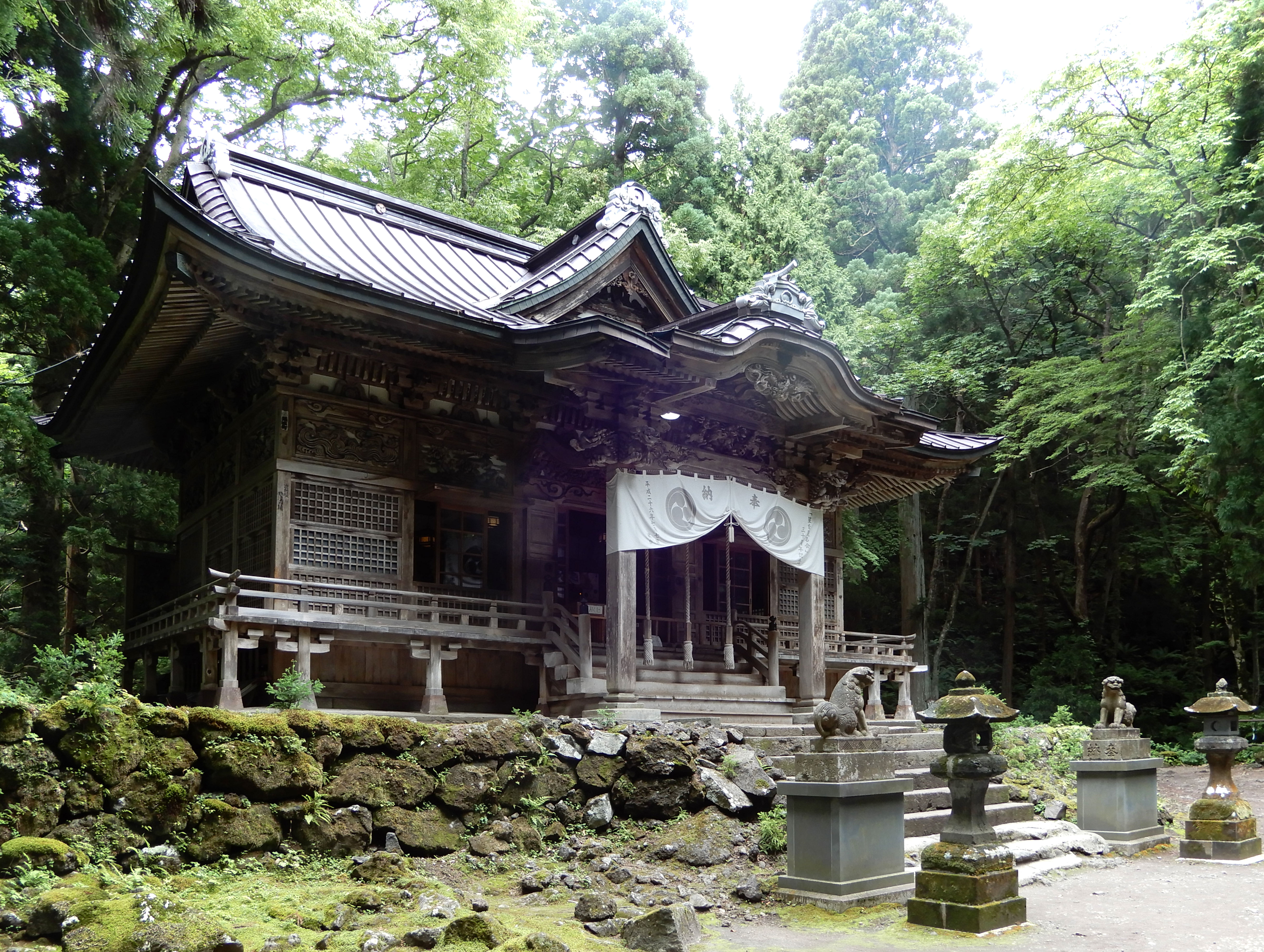 TOWADA JINJA or Towada Shrine is a holy site in the forest by Towada Lake in Aomori Prefecture Japan